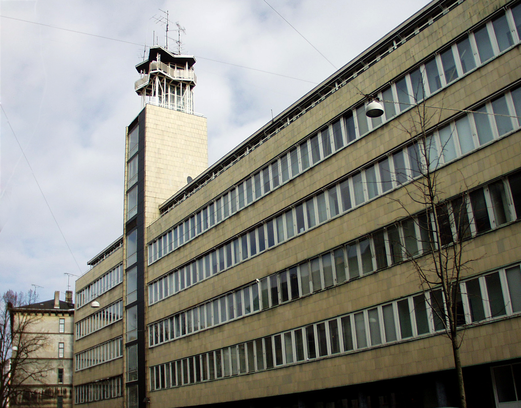 The concert hall Radiohuset in Copenhagen, Denmark